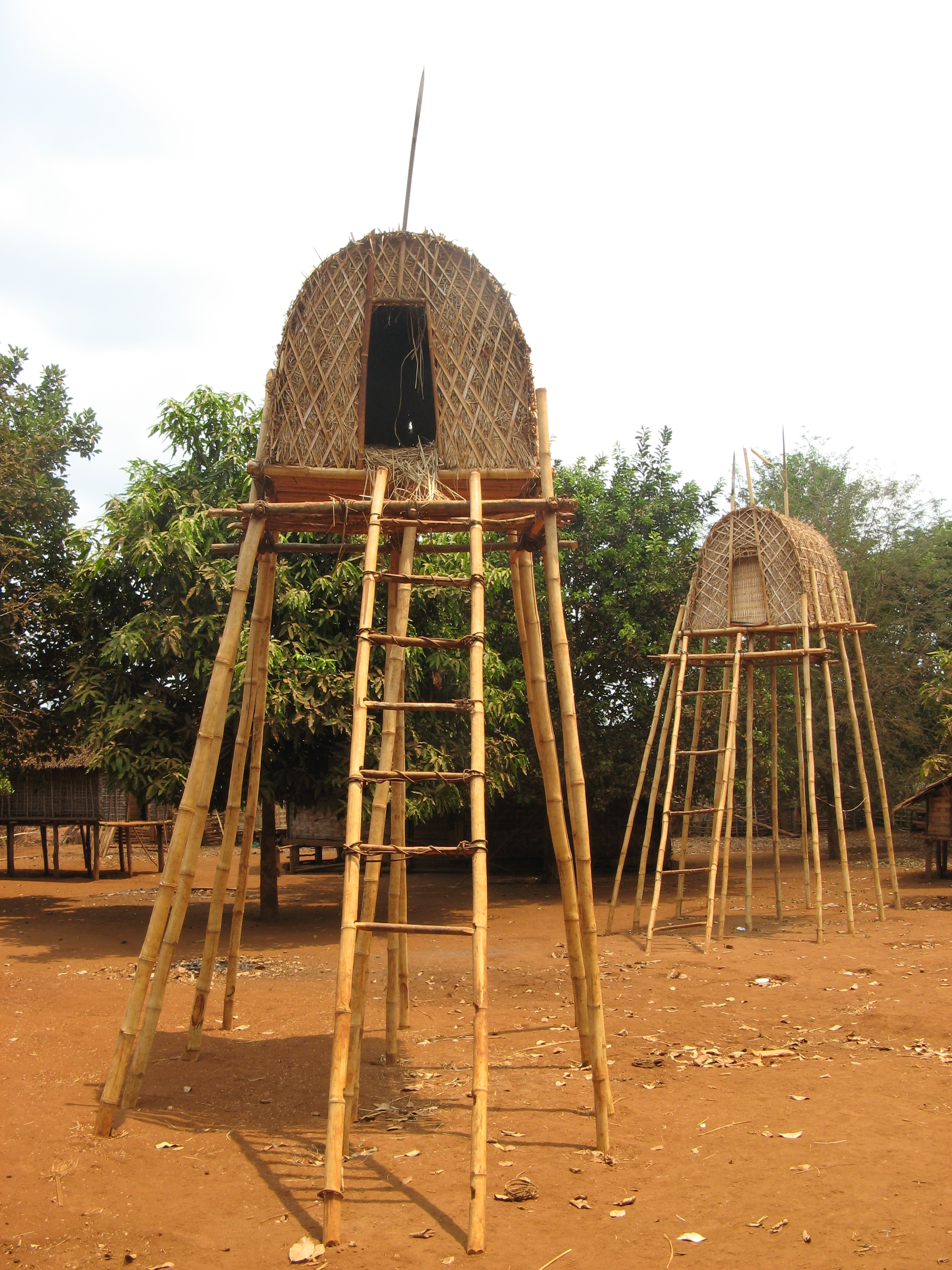 Structures used for "pre-marriage hook-ups" by a minority ethnic group